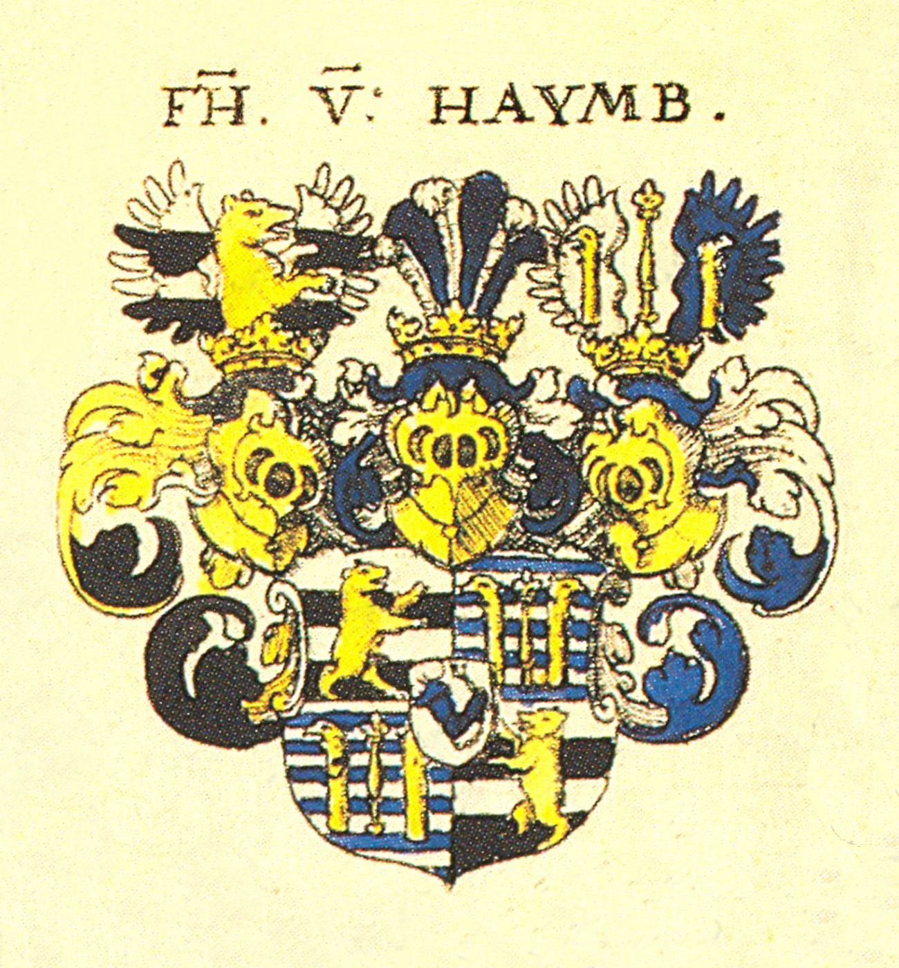 Coats of Arms of Haim (Haymb) Barons